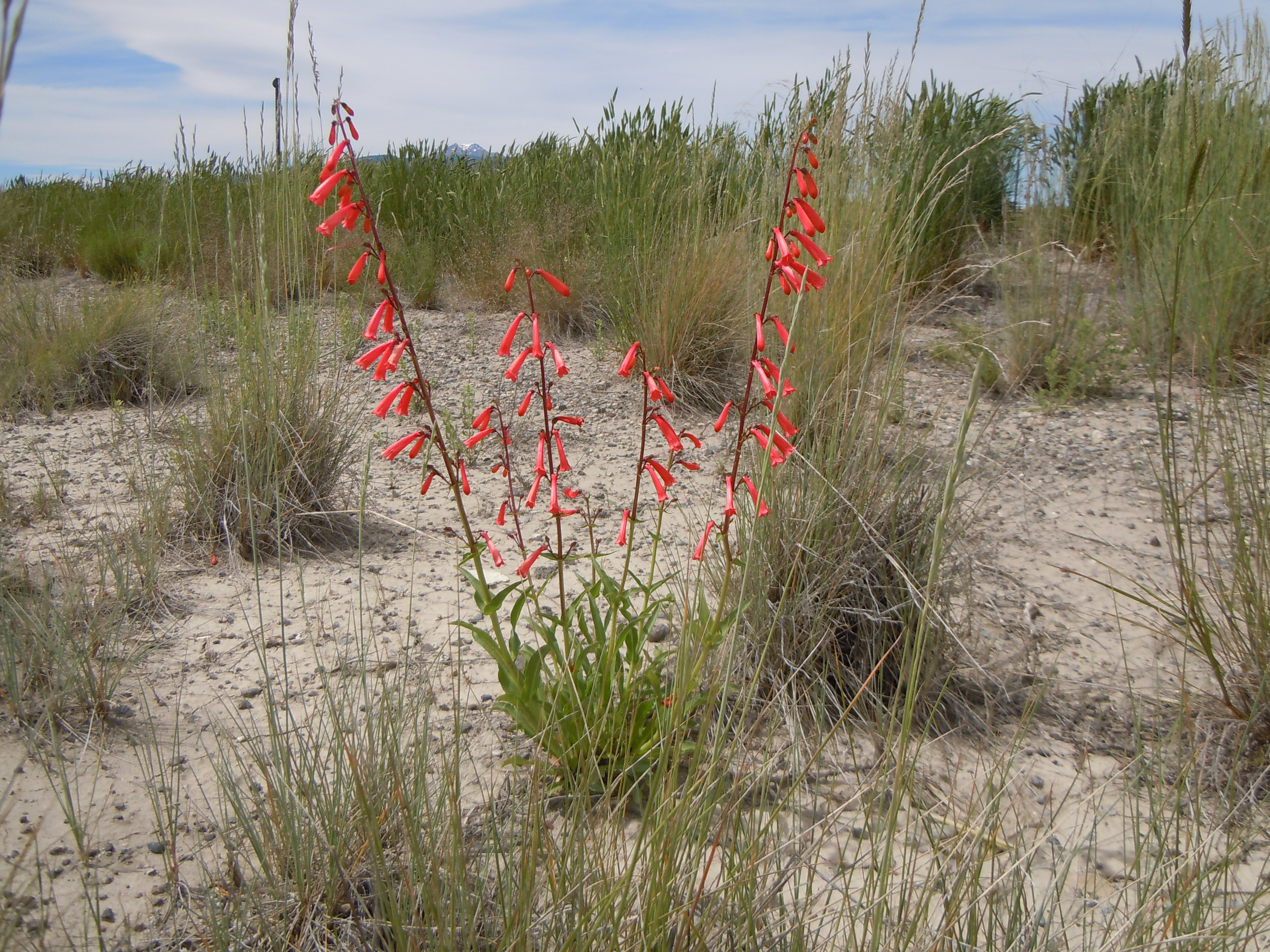 Firecracker penstemon has been found only roadside in this area of the upper Snake River plains.